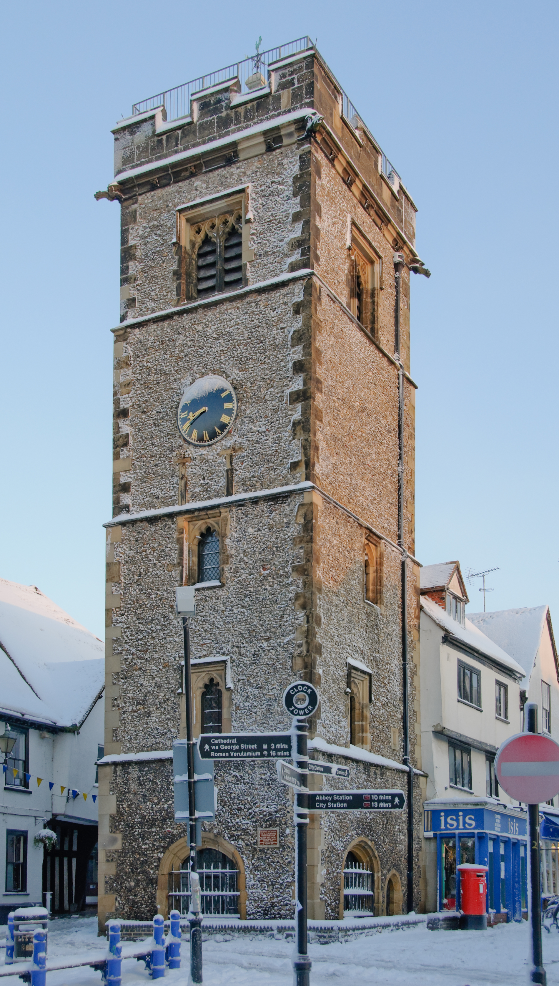 Clock tower in St Alban's, Hertfordshire, England, in snow